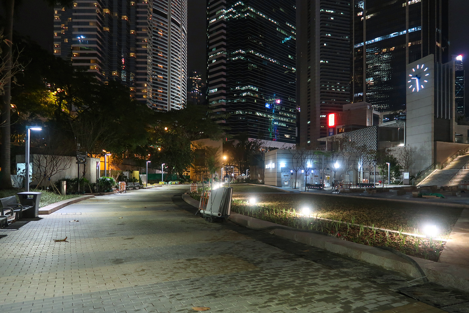 Harcourt Park Night view